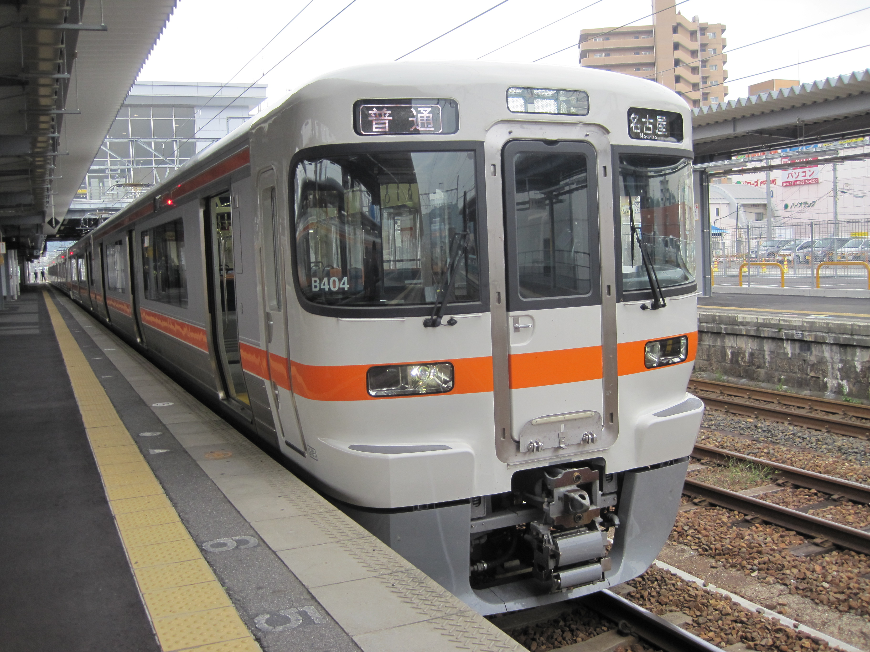 JR Central 313-1300 series 2-car EMU set B404 at Tajimi Station